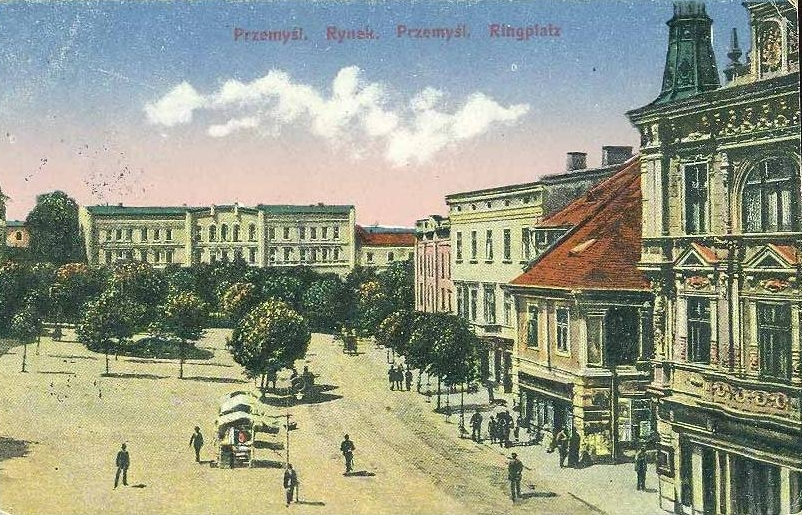 Dawny konwent dominikański w Przemyślu